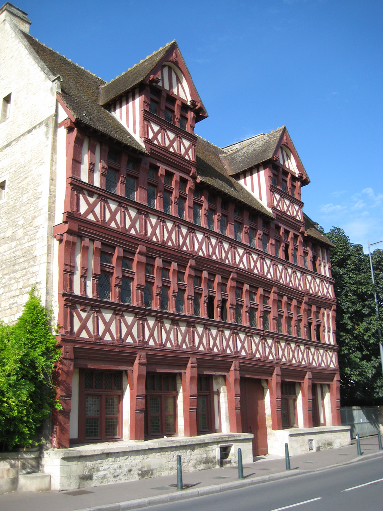 Quatrans House – Facade on Rue de Geôle.